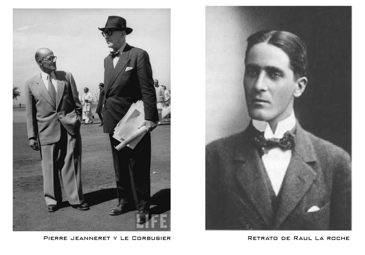 Pierre Jeanneret, Le Corbusier y Raoul La Roche